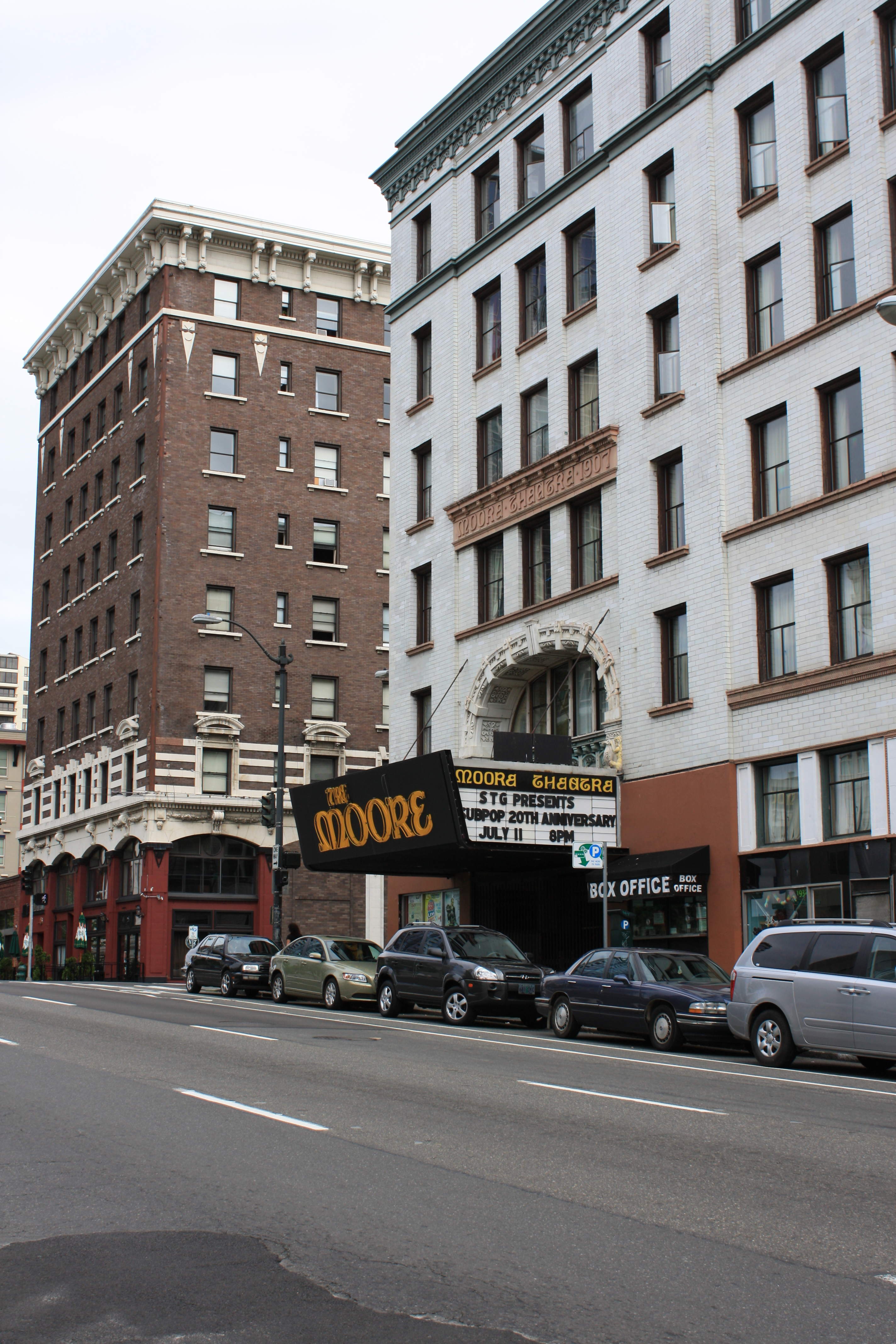 The Moore Theatre is a very popular venue for concerts and performing arts.